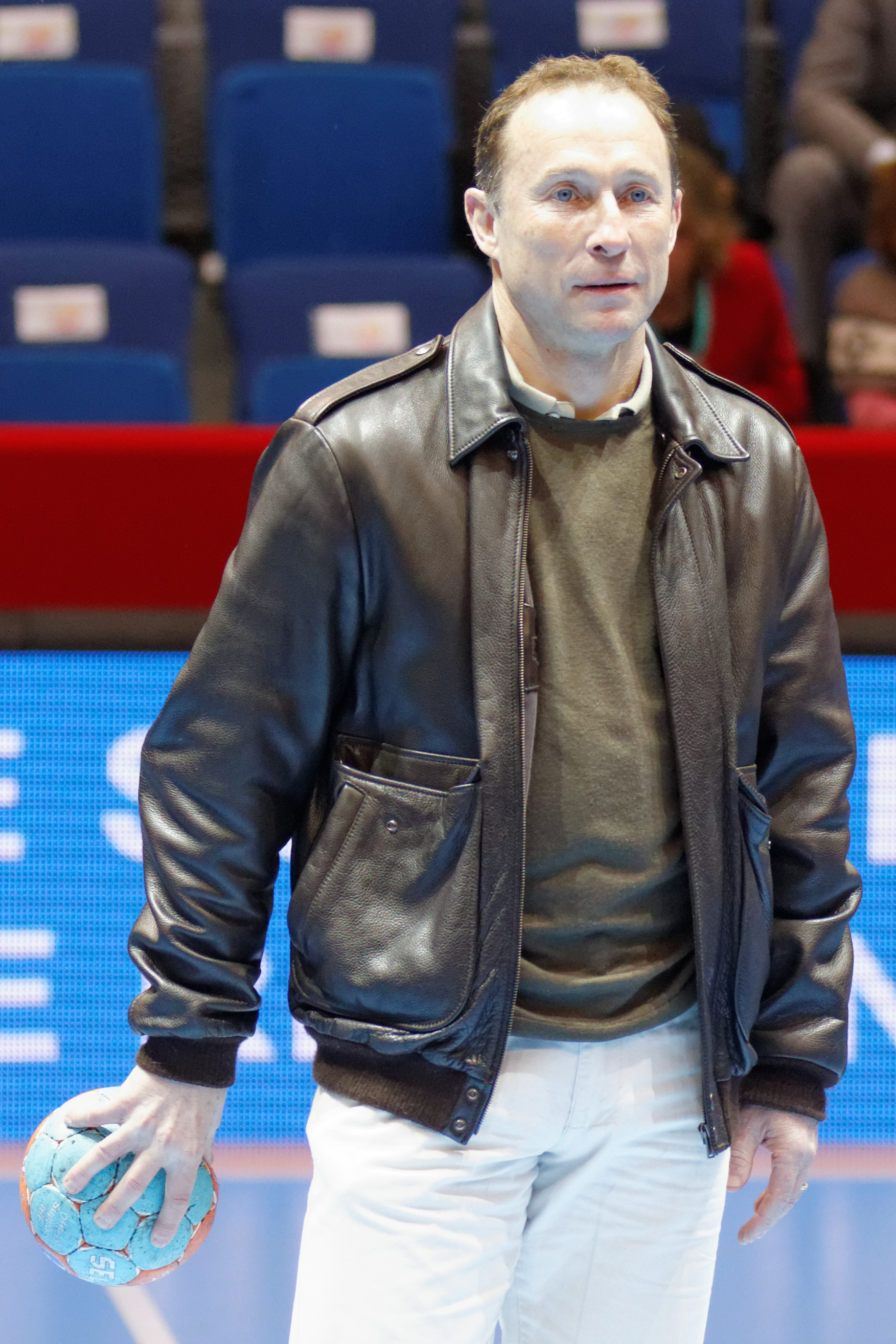 Final of the Women's handball French cup 2013. Jean-Pierre Papin's virtual kick off.